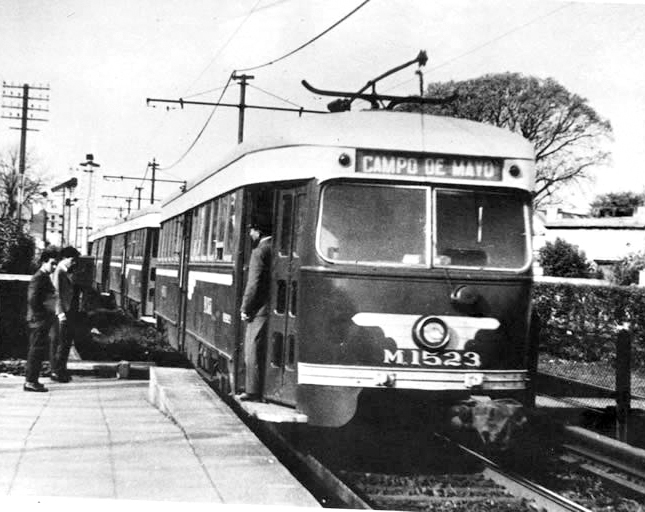 Tram used in the Urquiza Railway for urban services to Campo de Mayo. The coaches, made by Pacific Electric, served until 1974 where they were replaced by the Toshiba EMUs.